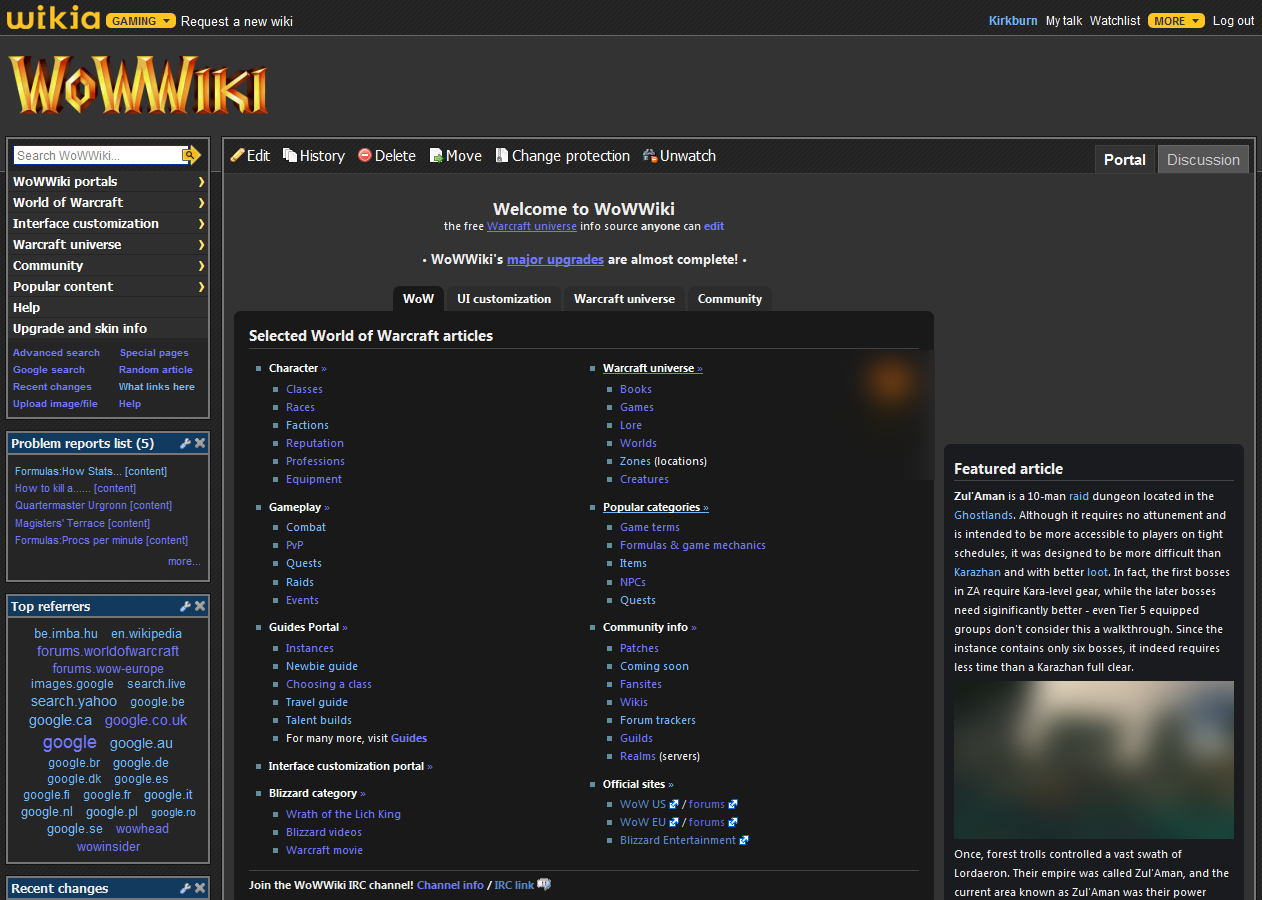 WoW Wikia Monaco skin